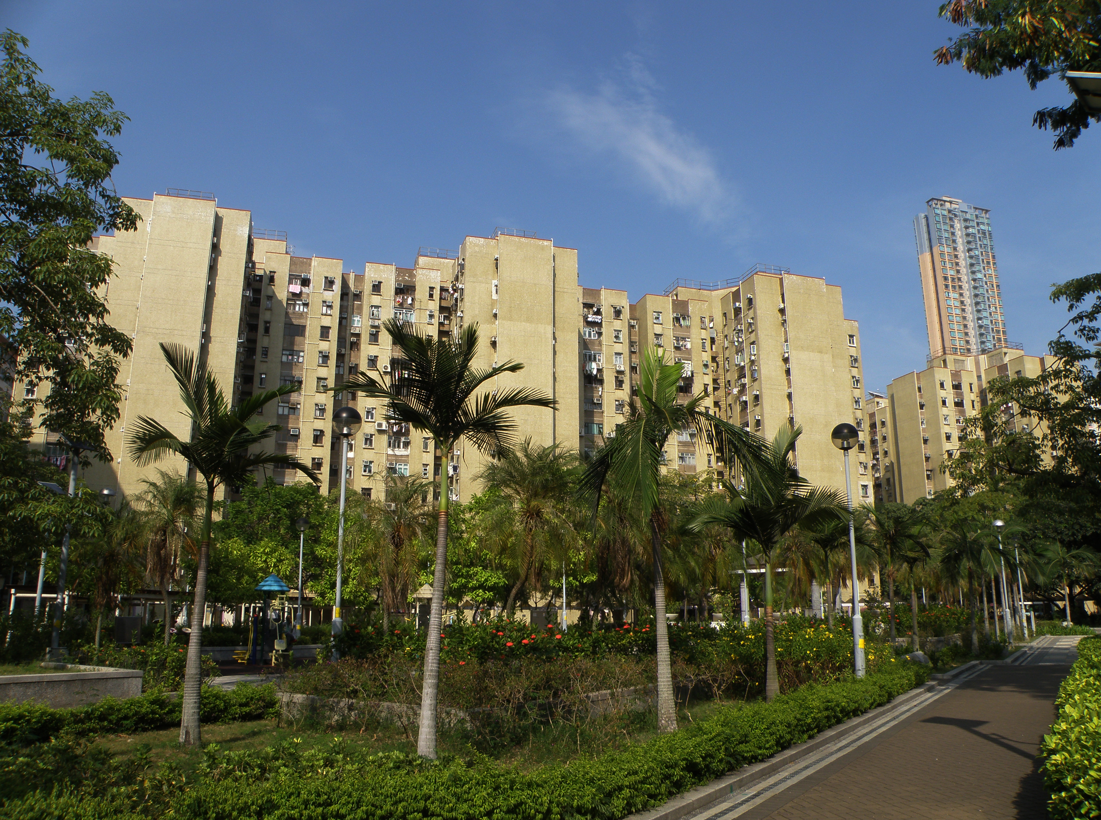 Yee Kok Court in Cheung Sha Wan, Hong Kong.